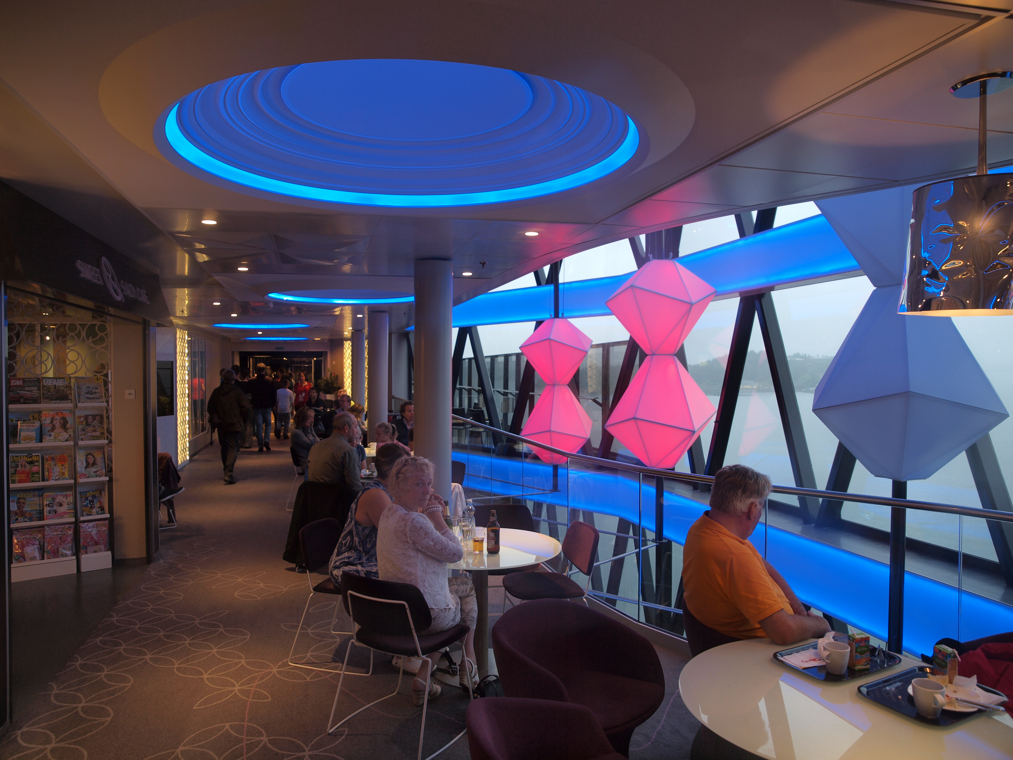 An interior view of Viking Grace, in the café/restaurant area, somewhere at sea between Stockholm, Sweden and Turku, Finland. Note the interesting light decorations on the right hand side. These go up and down on the poles, changing colours as they go.